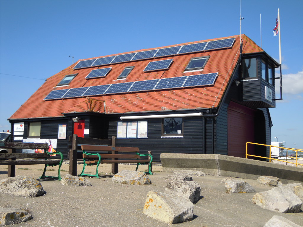 Portsmouth Lifeboat Station, Hampshire, United Kingdom.